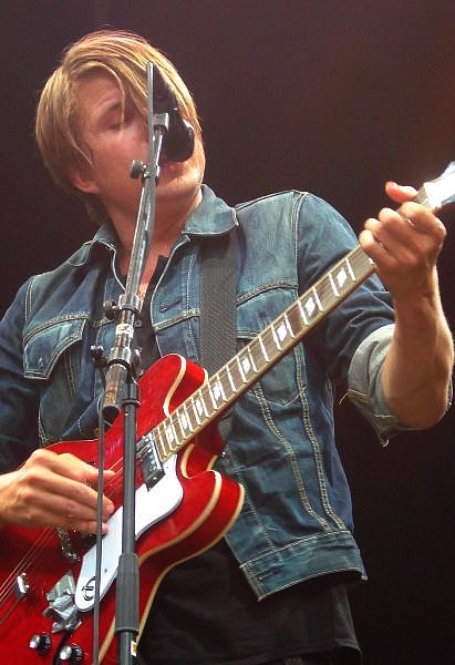 Taken by Agnieszka Szwarc.